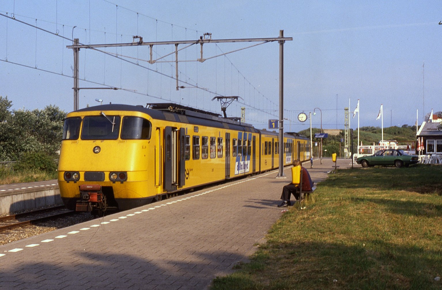 Hoek van Holland Haven was an entry point for many trips to the Netherlands up until the early 1990s usually via the overnight ferry from Harwich. The branch from Rotterdam did continue on one stop further to Hoek van Holland Strand. Plan Y2 Sprinter EMU no. 2873 is waiting to depart on the 08:49 Hoek van Holland Strand to Rotterdam CS.